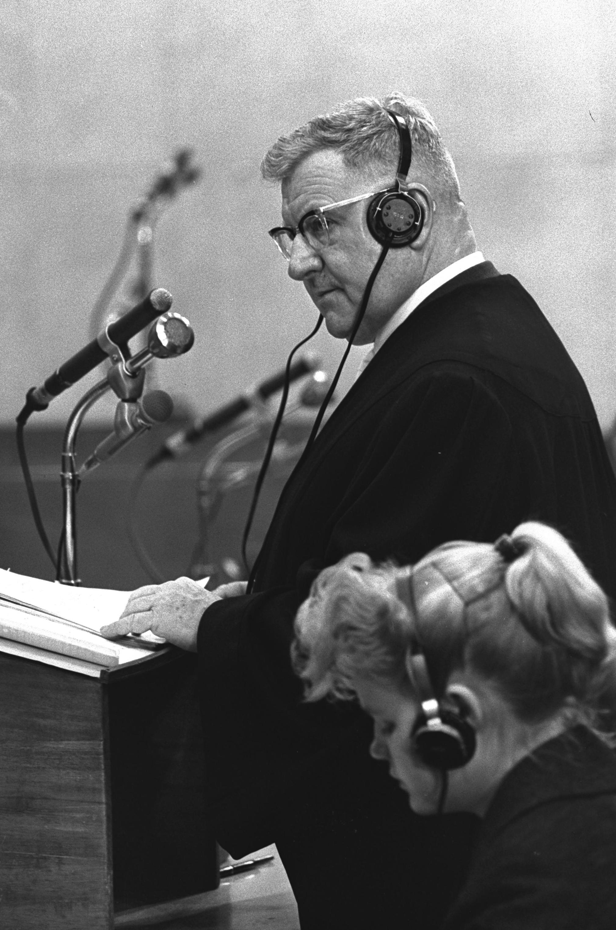 Robert Servatius during cross examination in the Eichmann trial.